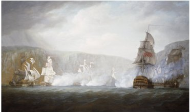 an engagement between British and Dutch frigate squadrons off Norway on 22 August 1795